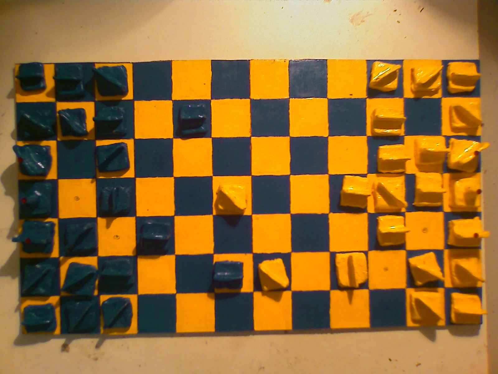 playing XO